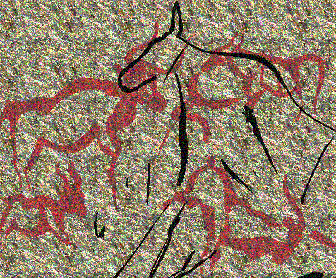 Reconstruction with fictional background of cave paintings in the Cueva de la Pileta Benaoján, Málaga (near Ronda)